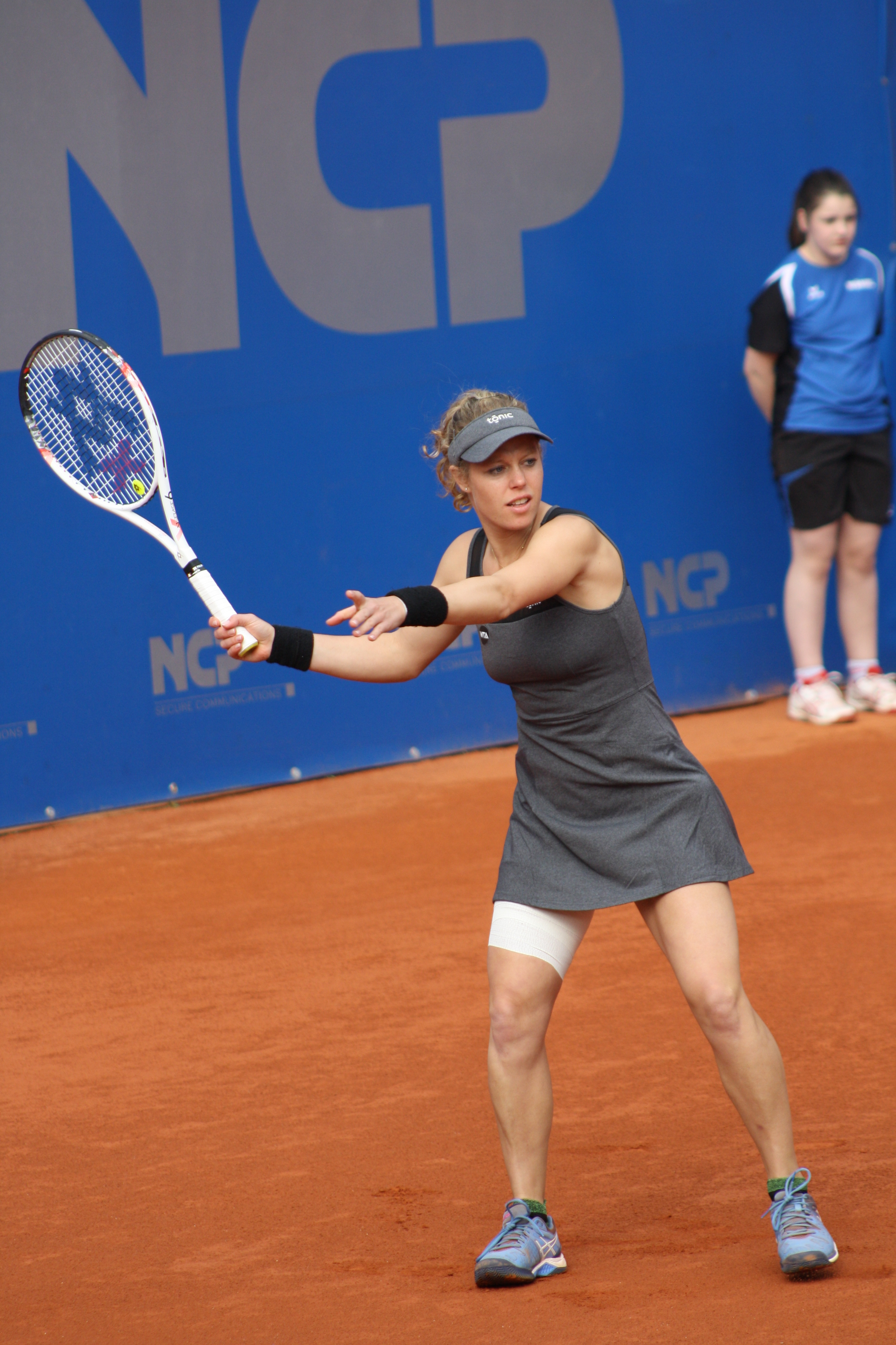 Laura Siegemund, May 2016